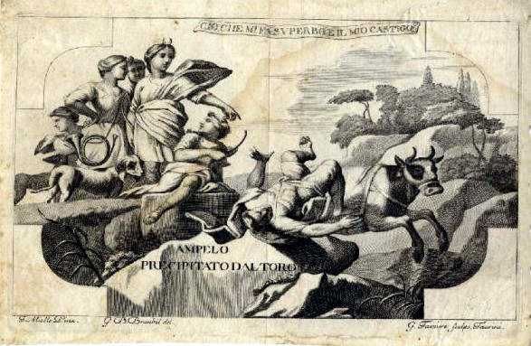 Jan Miel (1599-1664) (given to) - "Ampelos killed by the bull". Engraving.